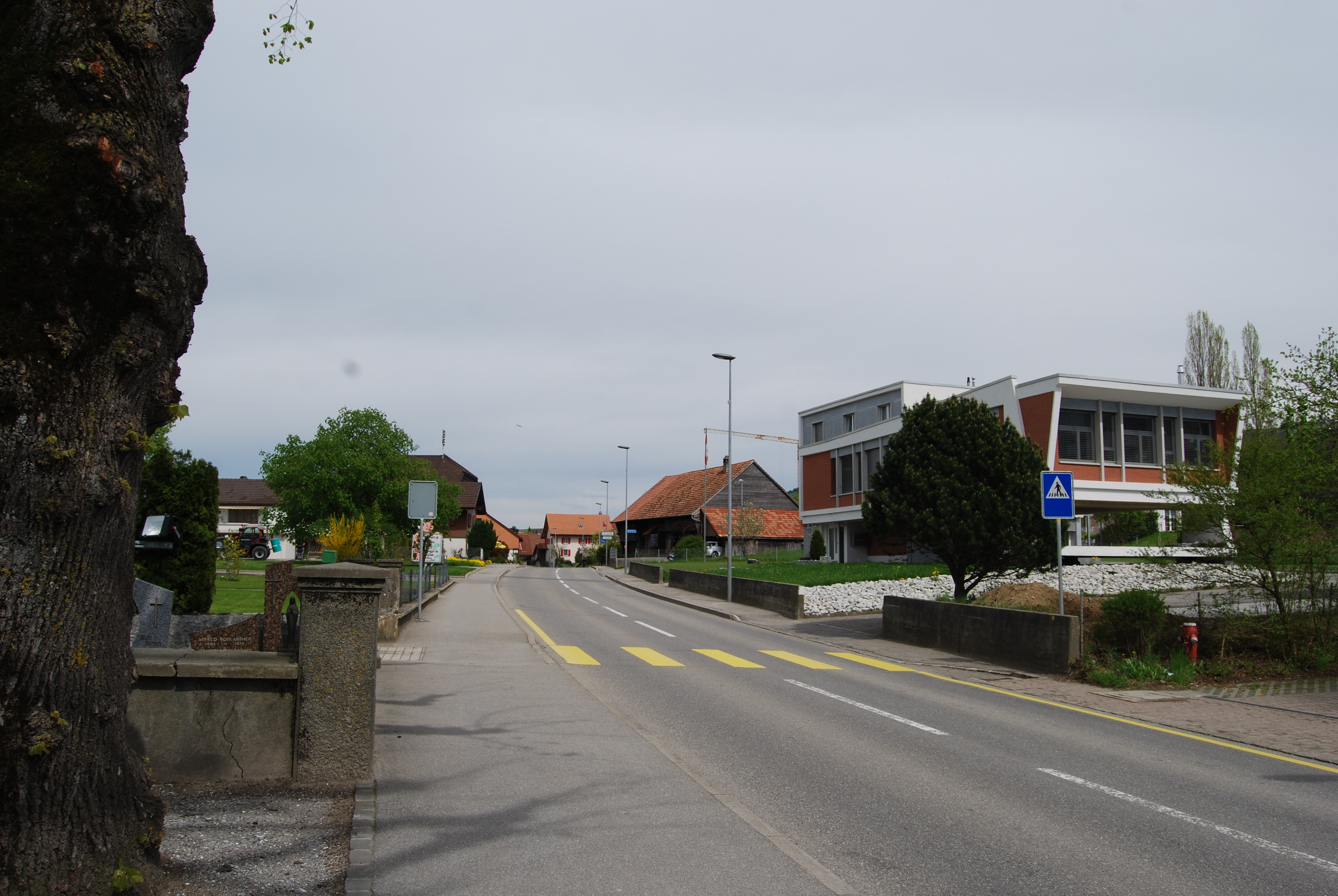 Rossens, canton of Fribourg, SwitzerlandEsperanto: Rossens, Kantono Friburgo, Svislando